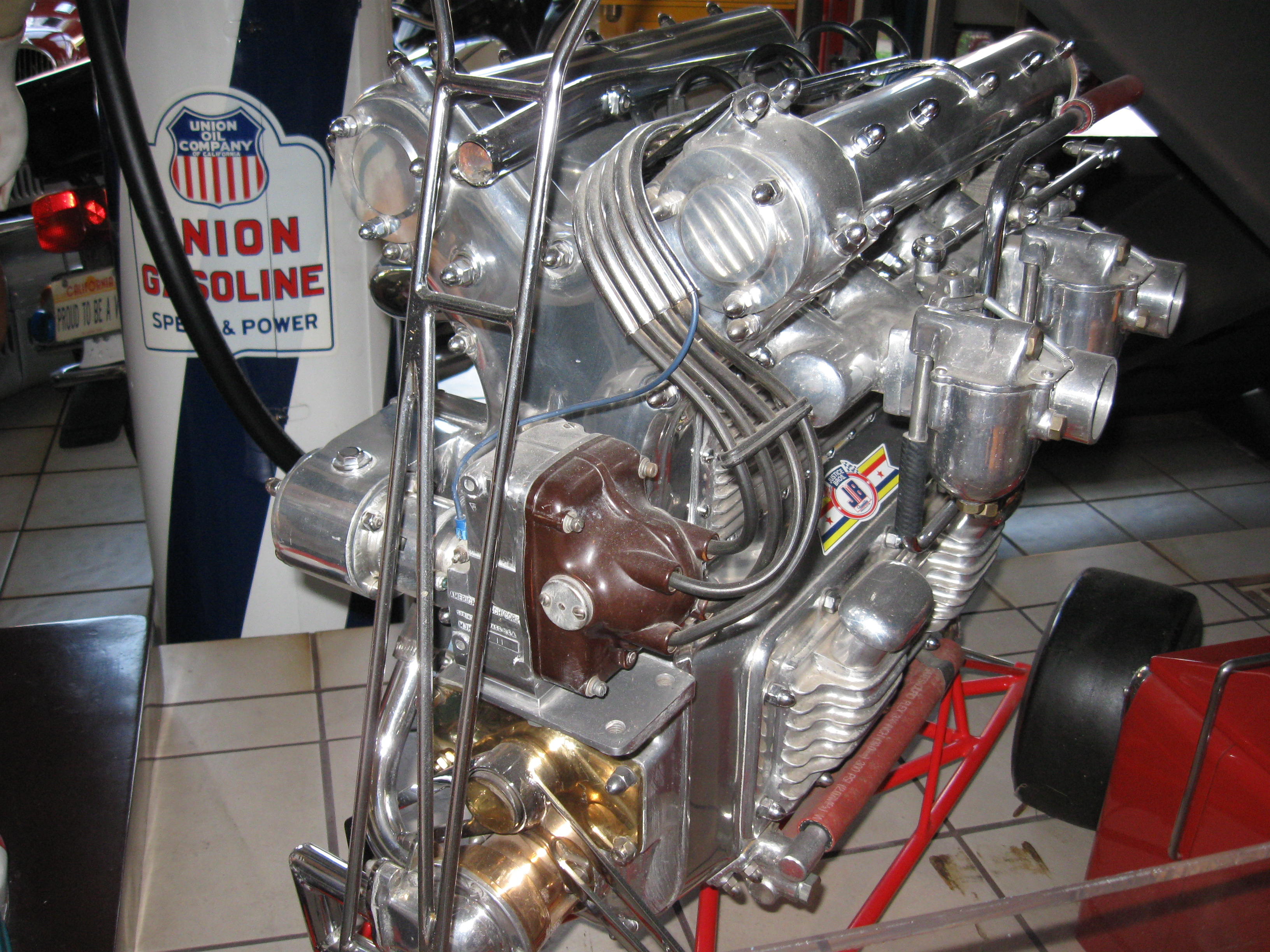 Offenhauser "Offy" midget racing engine - picture taken at the Justice Brothers racing museum in Duarte, California